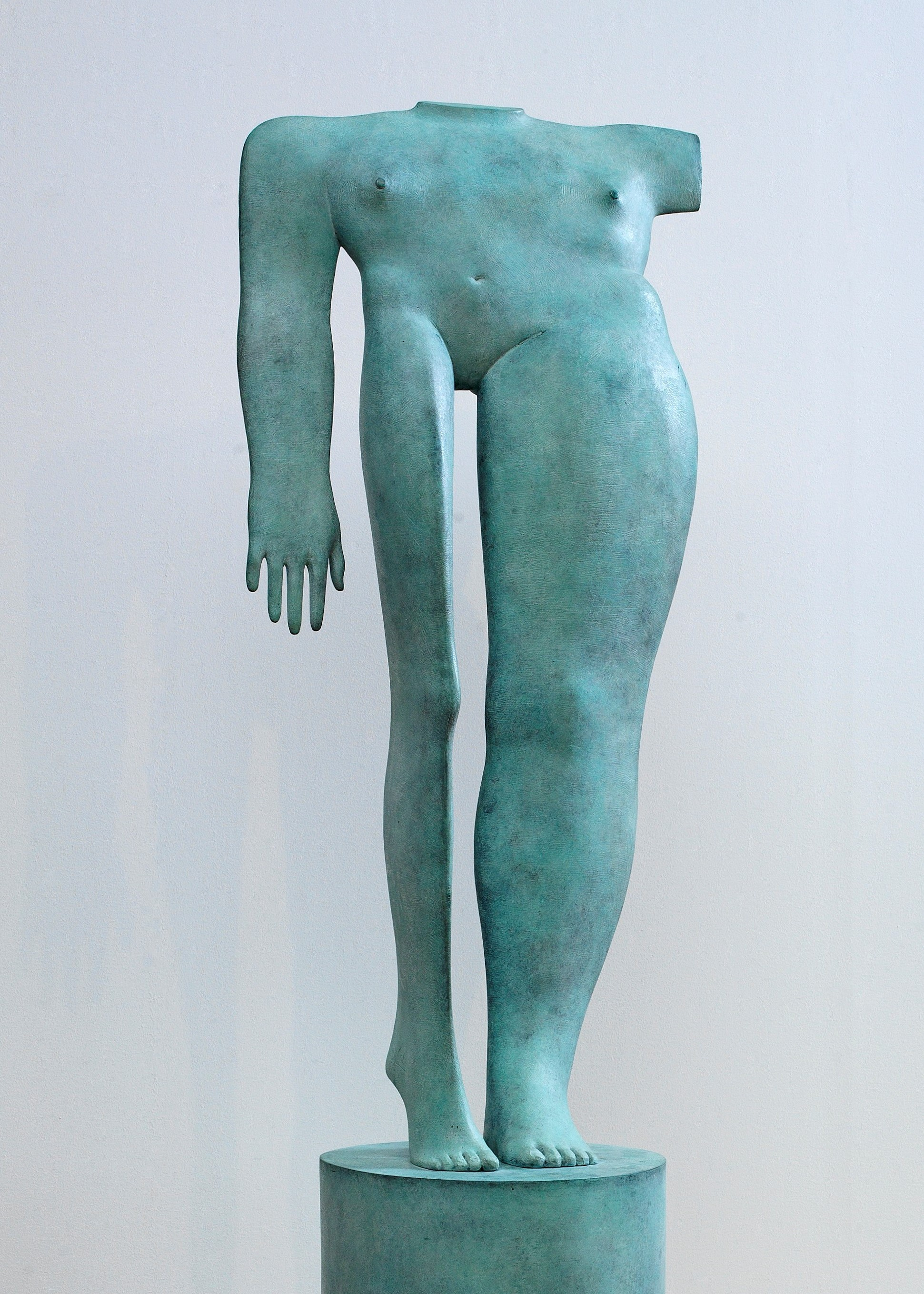 Kobe - Grande Torse Debout (Large Standing Torso) - 1999 - 160 x 48 x 20 cm - base 60 x 30 cm - Brons